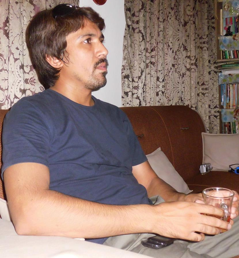 Image of Pakistani Poet Ata Turab